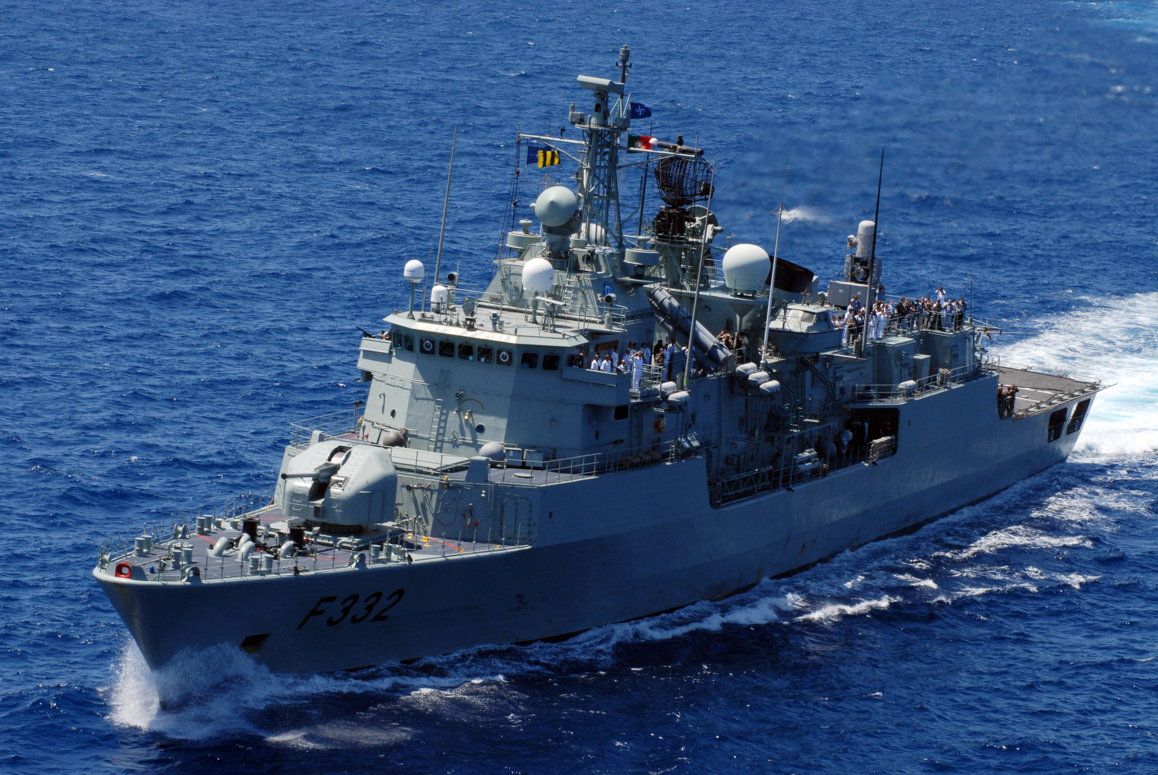 090713-N-0901C-054 ATLANTIC OCEAN (July 13, 2009) The Portuguese Navy frigate POS Corte Real (F 332) participates in a pass and review during the North Atlantic Council at Sea Day.